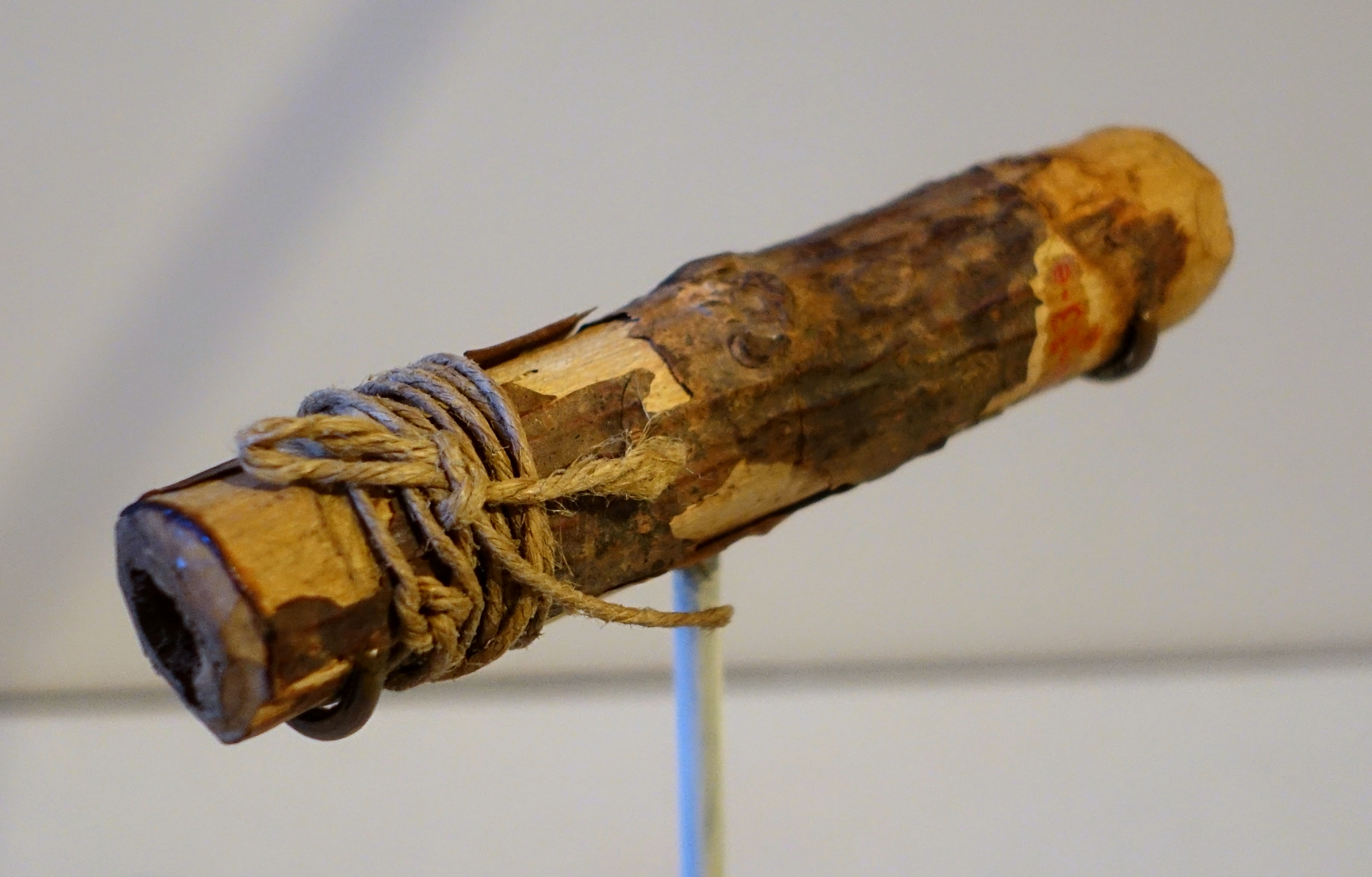 Exhibit in the Concord Museum, Concord, Massachusetts, USA.